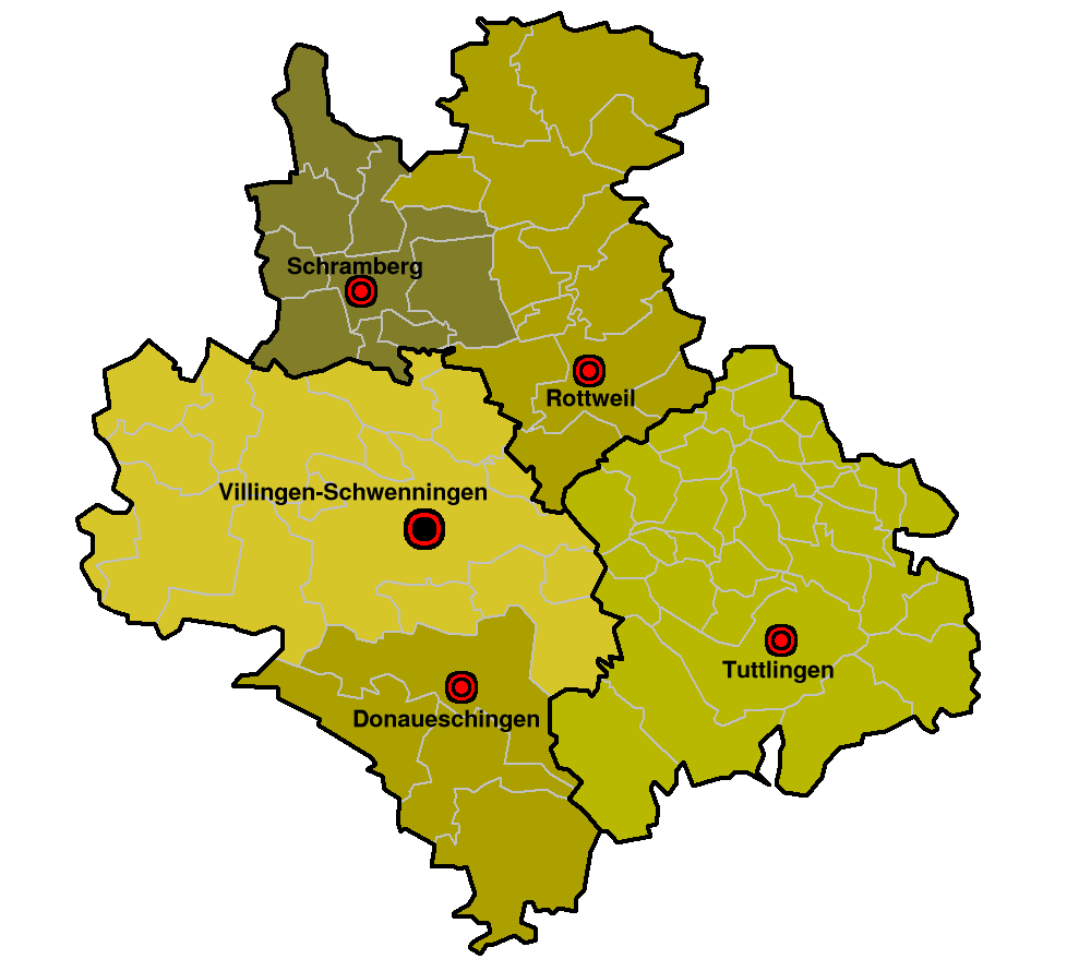 Maps of planning regions (Mittelbereiche) in the region Schwarzwald-Baar-Heuberg, Baden-Württemberg, Germany